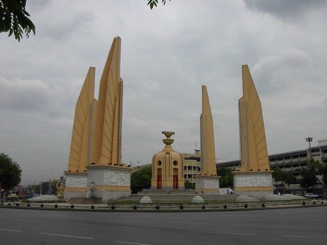 I took this myself